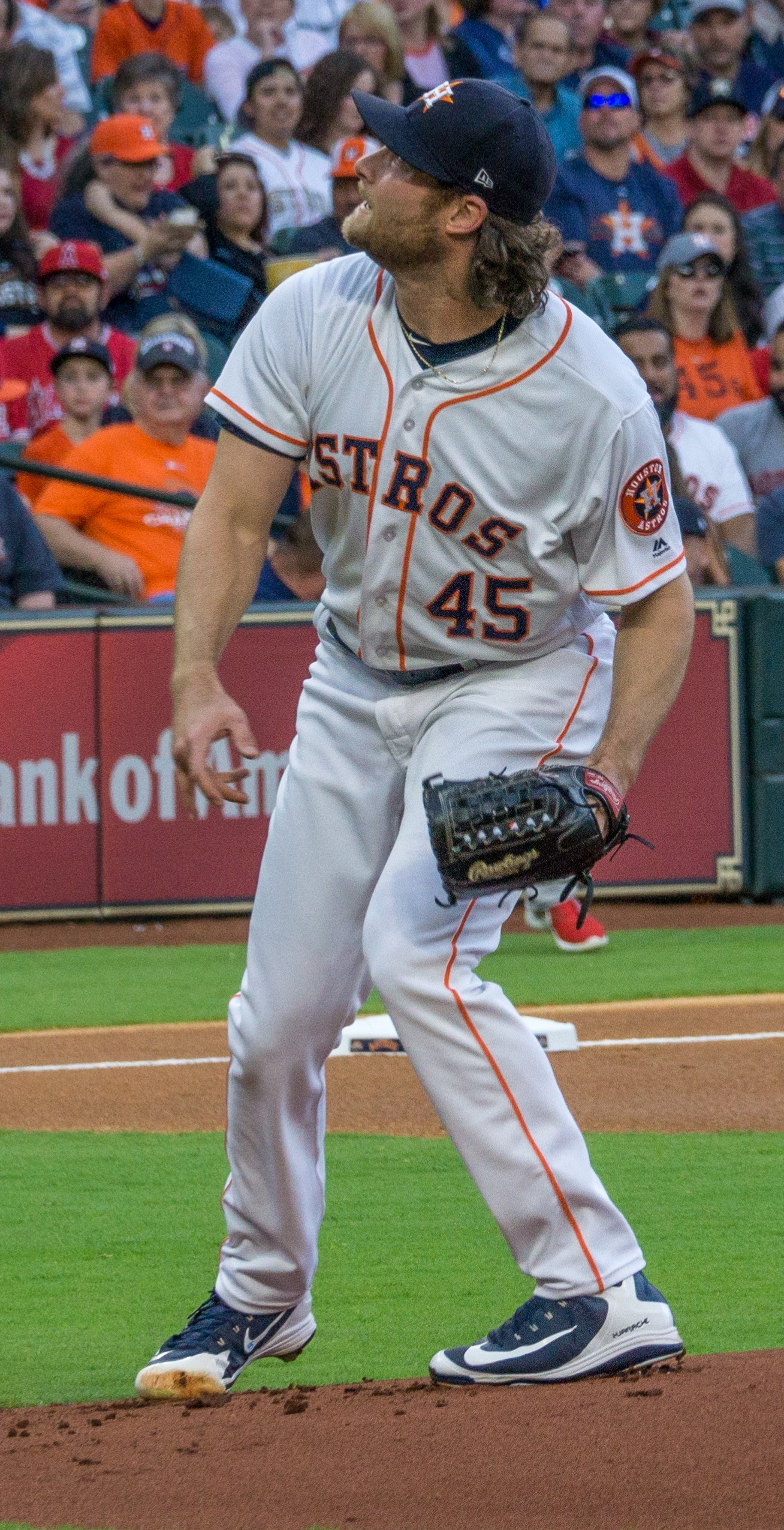 Astros vs Angels